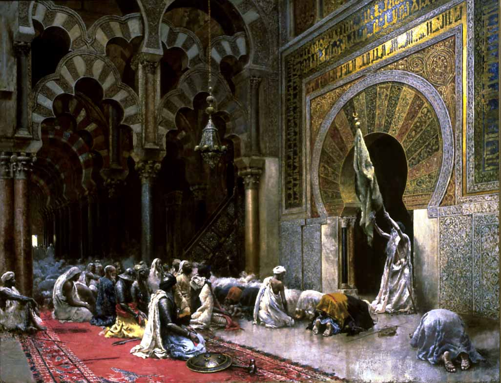 This work, set in the 8th-century Great Mosque of Cordova in Spain may have been begun in 1880 while Weeks was staying in that city. In Weeks' estate sale catalogue, the scene was described as follows: Preaching the holy war against the Christians, the old Moor holds aloft the green flag of Mohammed while he curses the "dogs of Christians" with true religious fervor, and calls upon the followers of Mohammed to drive them out of Spain.